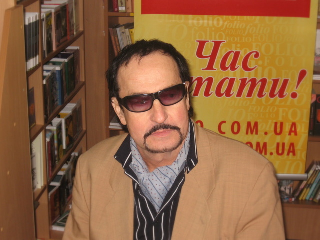 Photo of present-day ukrainian writer Yurko Pokalchuk